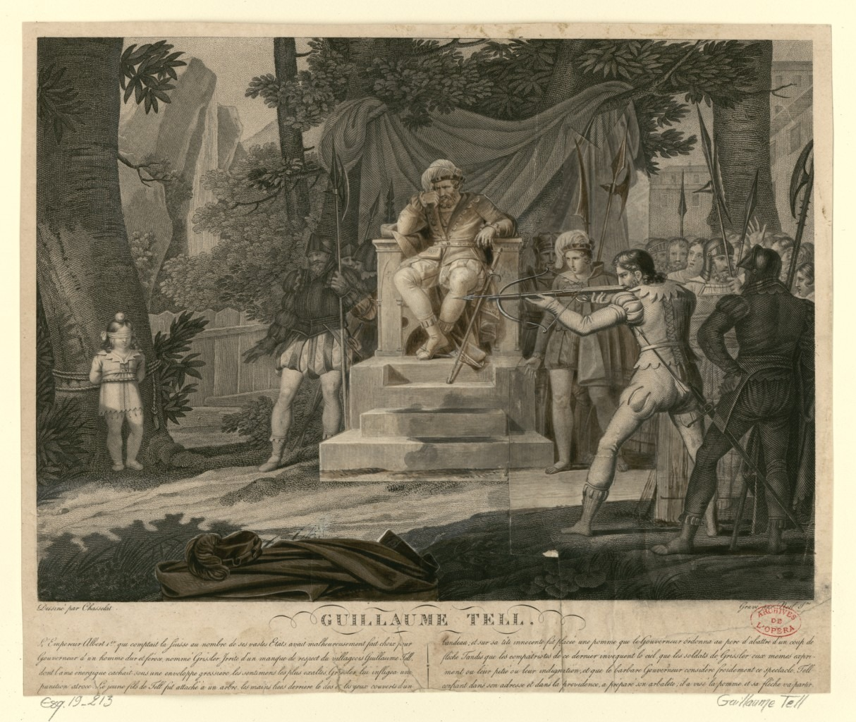 Gioachino Rossini - Guillaume Tell - Charles-Abraham Chasselat - dessin préparatoire à la gravure 4